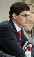 Alexander Popov, former Russian swimmer